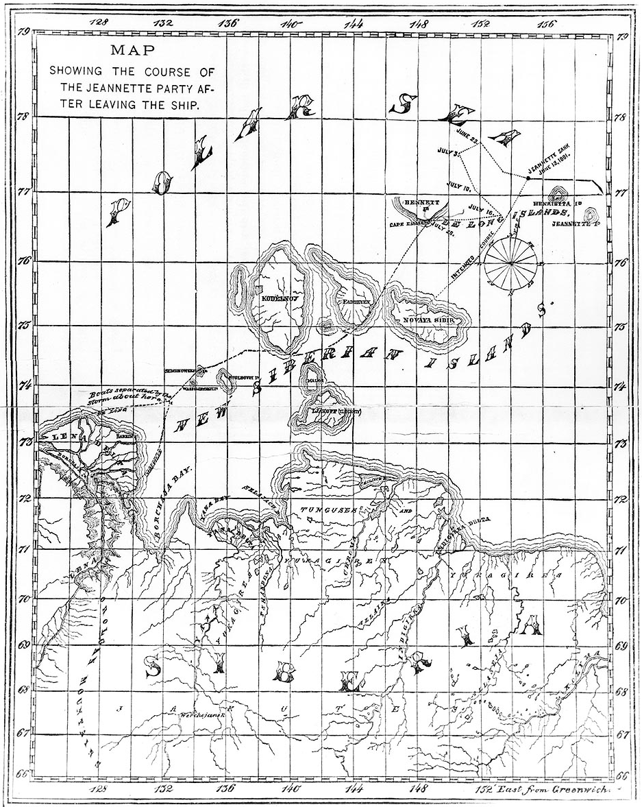 Chart depicting the course followed by the USS Jeannette's crew from 12 June 1881, when they abandoned the ship in the ice north of Siberia, to 19 September 1881.